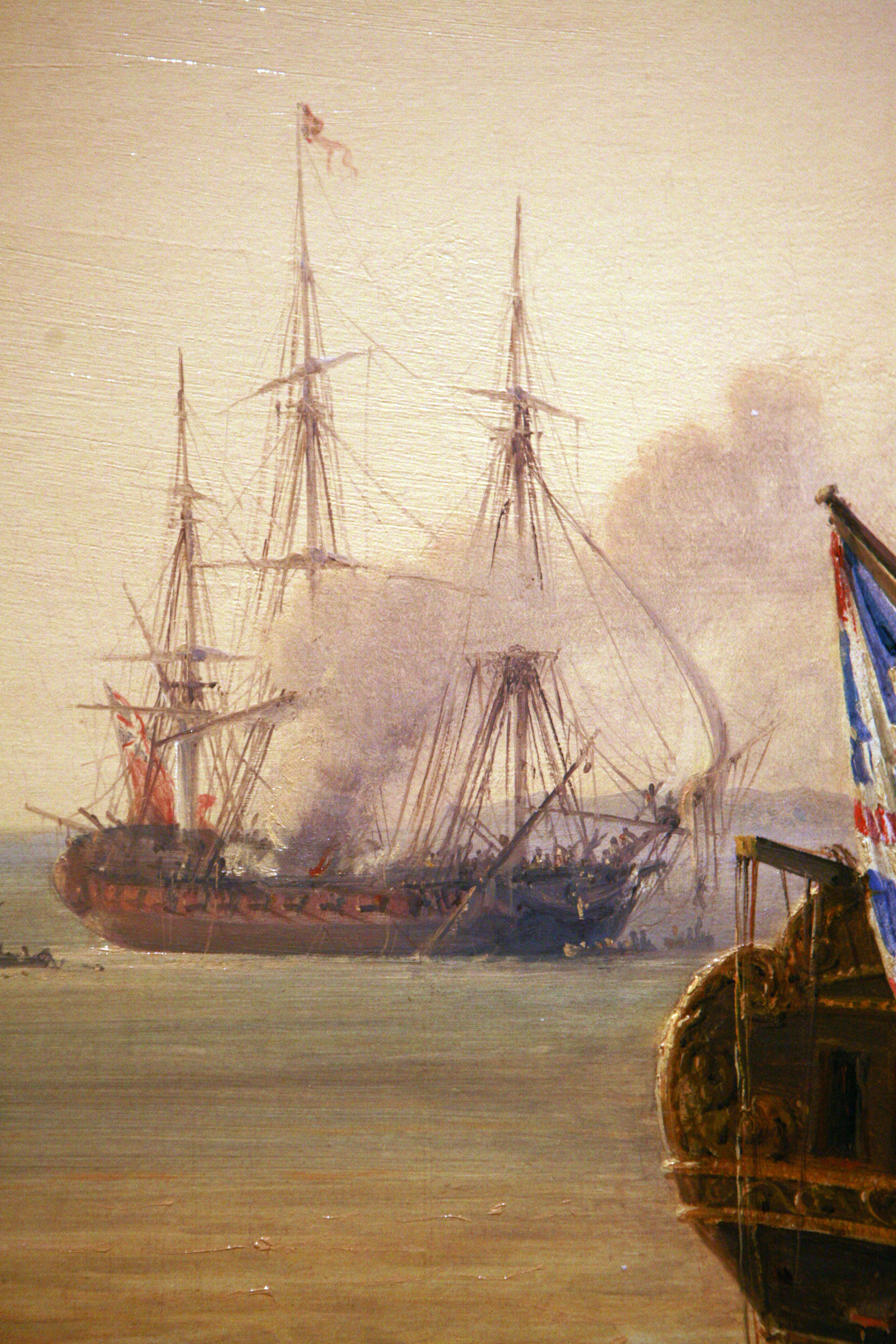 Detail of the Battle of Grand Port: scuttling of HMS MagicienneOil on canvasCollection Musée national de la Marine Native nameMusée national de la MarineLocationParisCoordinates48° 51′ 43″ N, 2° 17′ 15″ E Established1827Web page control : Q1286709 VIAF: 19144648200974718522 ISNI: 0000 0001 2259 2914 LCCN: n50055356 Museofile: M5026 WorldCat institution QS:P195,Q1286709Source/Photographer Rama